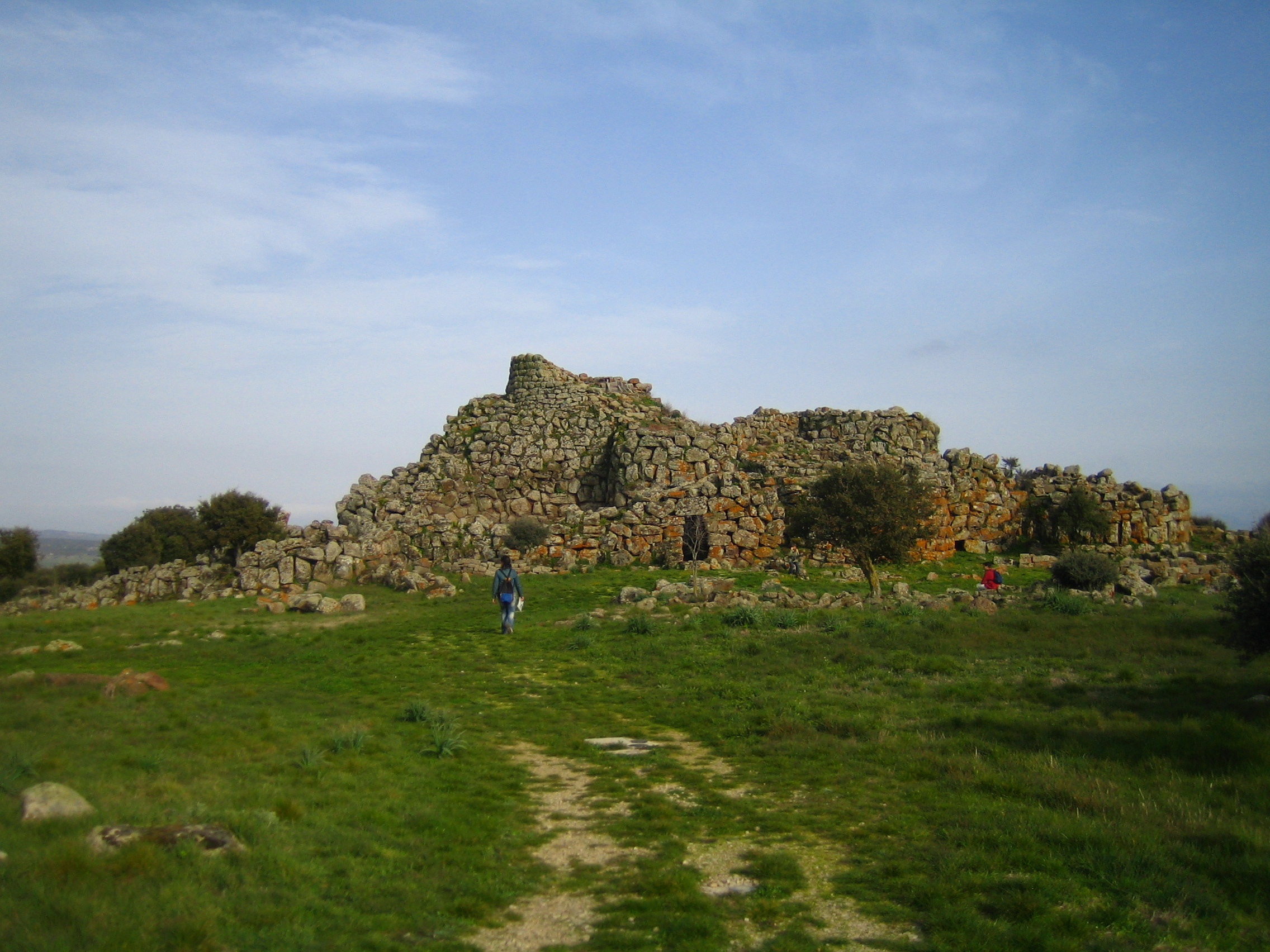 The nuraghe is the main type of megalithic edifice found in Sardinia, dating back before 1000 BC. Today it has come to be the symbol of Sardinia and its distinctive culture.